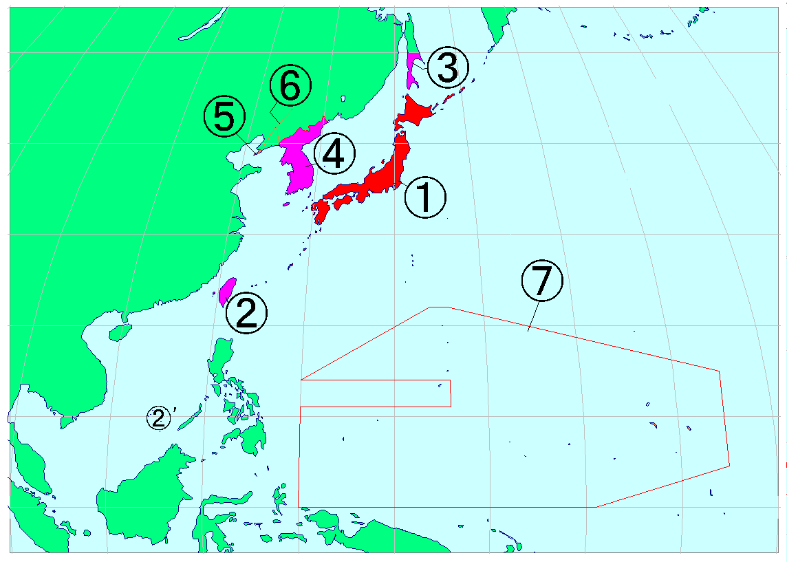 Territory of the Empire of Japan (Showa period) 1. Inner land, 2. Taiwan, 2. New South archipelago, 3. Karafuto, 4. Korea (above the territory), 5. Kanto state, 6. Mantetsu affiliated land, 7. Nanyo archipelago